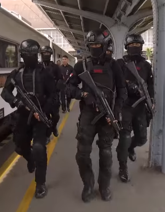 Tactical officers of the Indonesian Presidential Security Force (Paspampres) in full gear